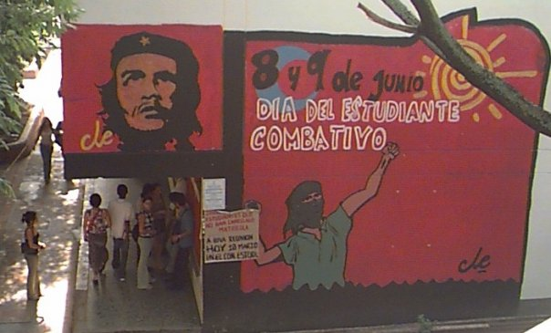 Picture on wall at Surcolombian University